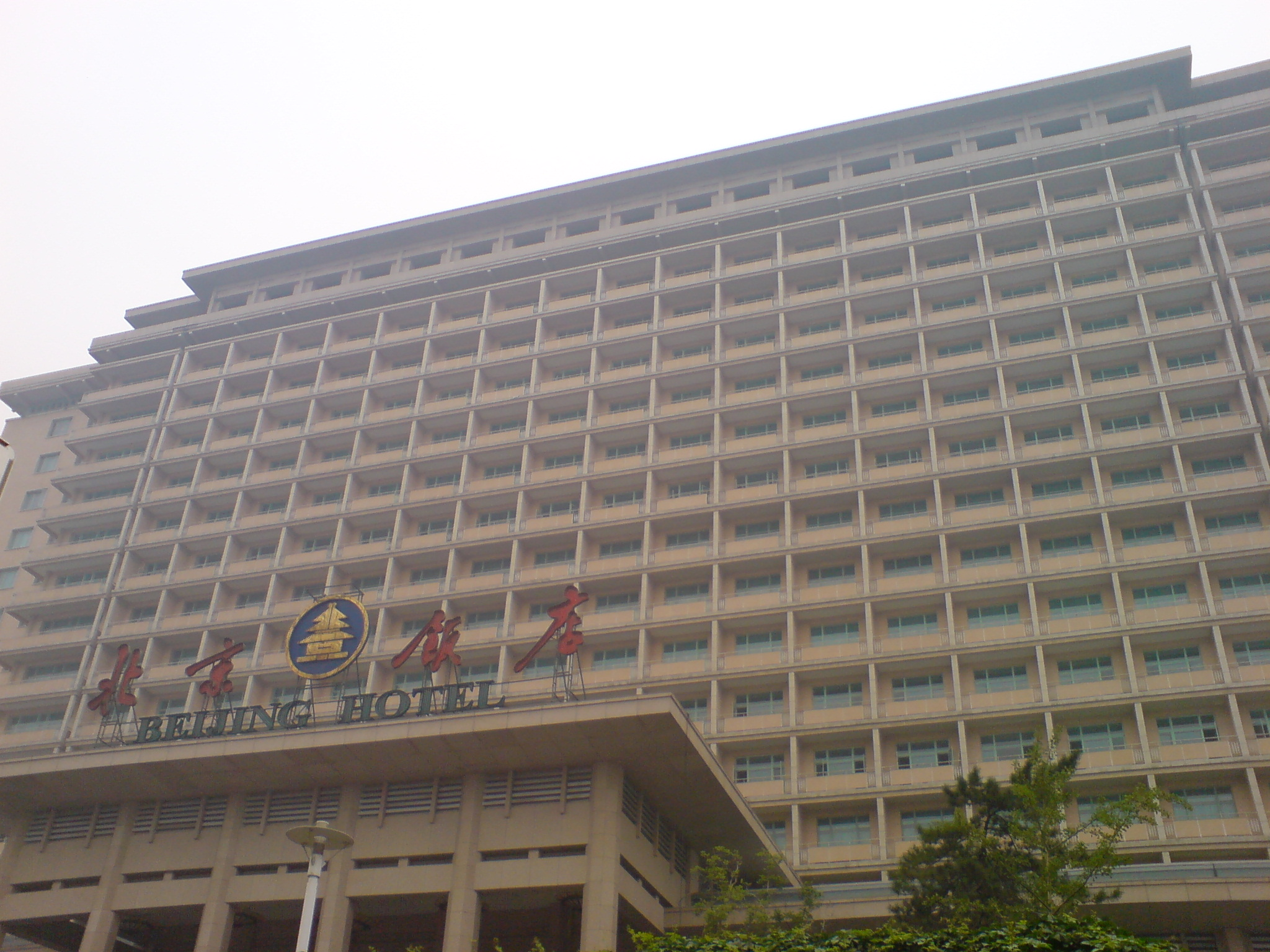 Beijing Hotel